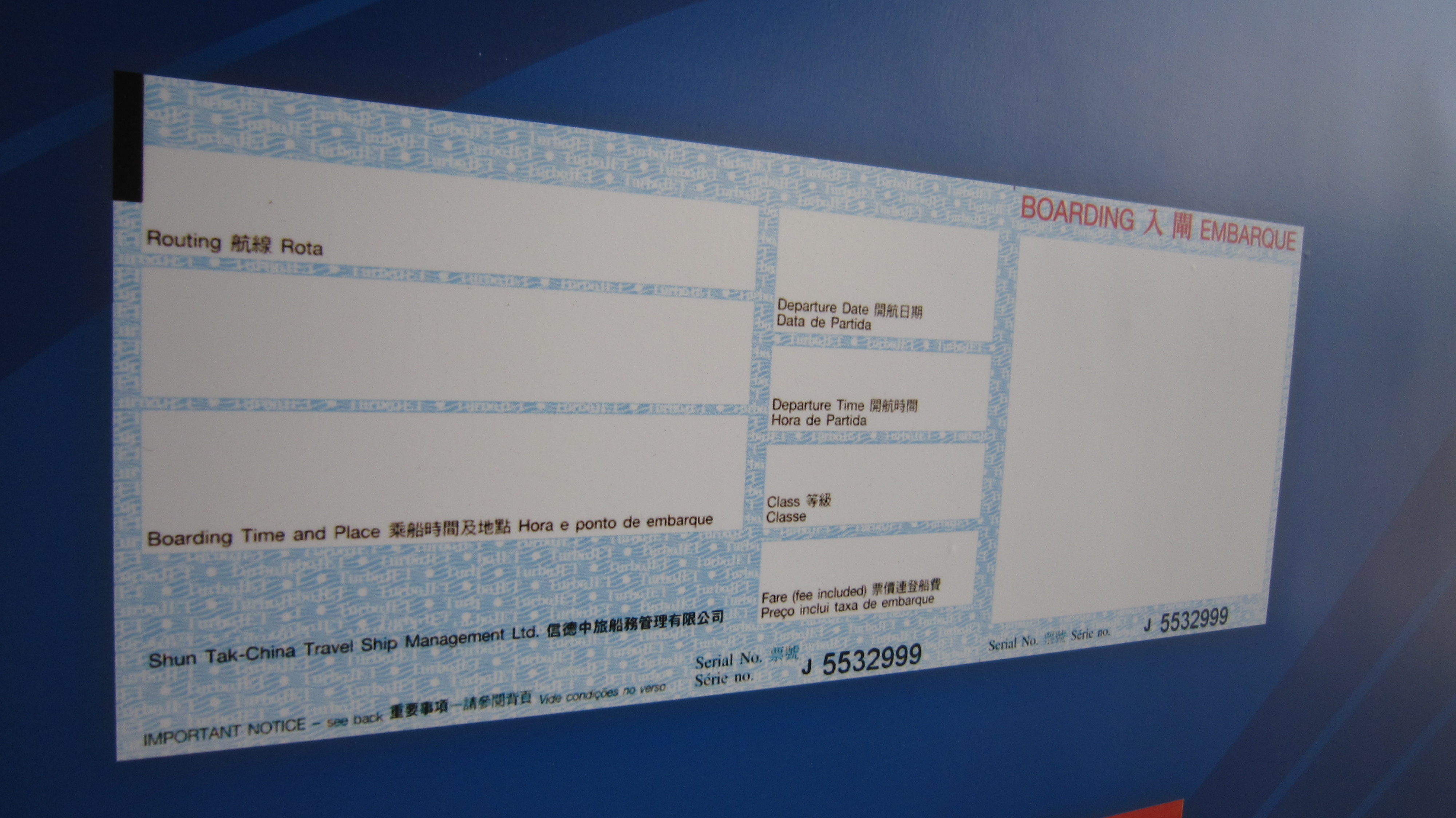 a TubroJET ticket